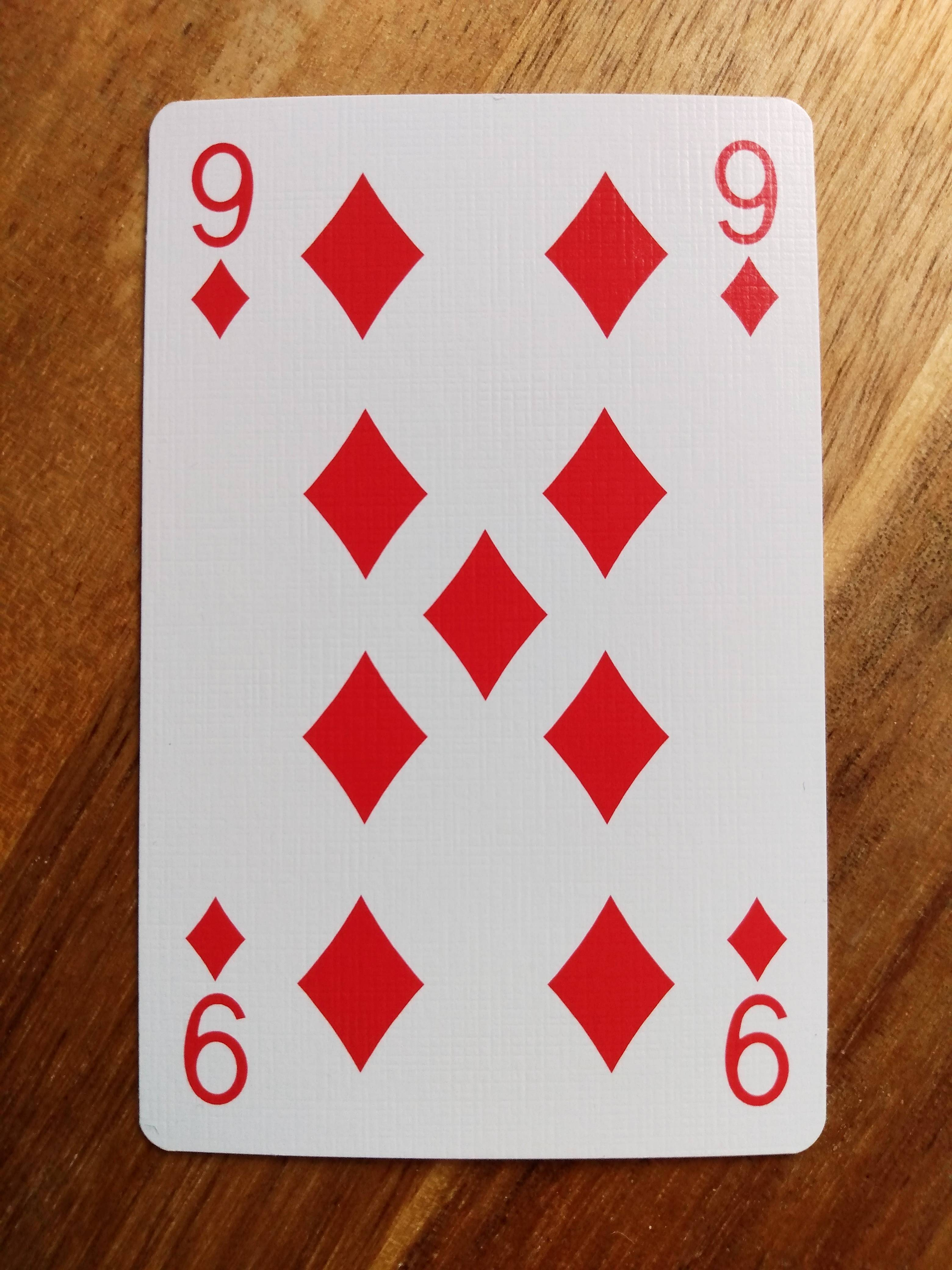 Nine of diamonds playing card.